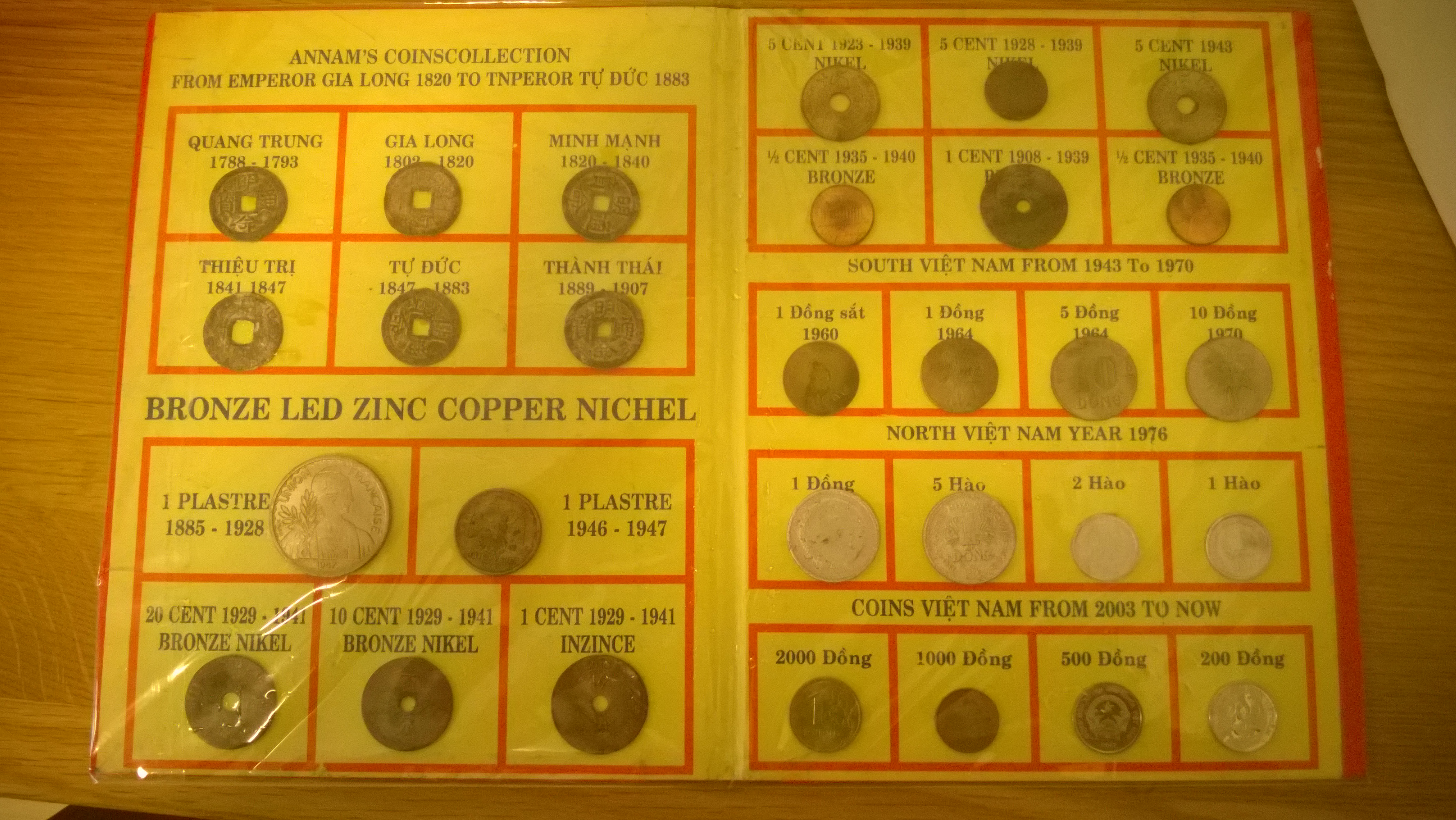 A Vietnamese coin collection booklet for tourists from 2014, these booklets would supposedly have coins from Imperial Dai-Nam/Royal Annam until modern Viet-Nam but often have the more expensive coins replaced with cheaper specimens, this often includes all cash coins being replaced by Minh Mang thong bao coins and French Indochinese coins being replaced with similar looking Russian and U.S. American coins while almost all Vietnamese coins are South-Vietnamese one Dong coins.